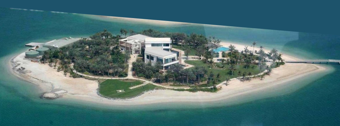 This is a photo showing one of the islands in The World in Dubai, United Arab Emirates as seen from the air on 1 May 2007. This is the first island that had a structure on it. This island was used as a model island for prospective buyers.